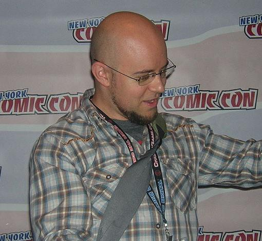 This picture is to show what Mike Dante DiMartino looks like.